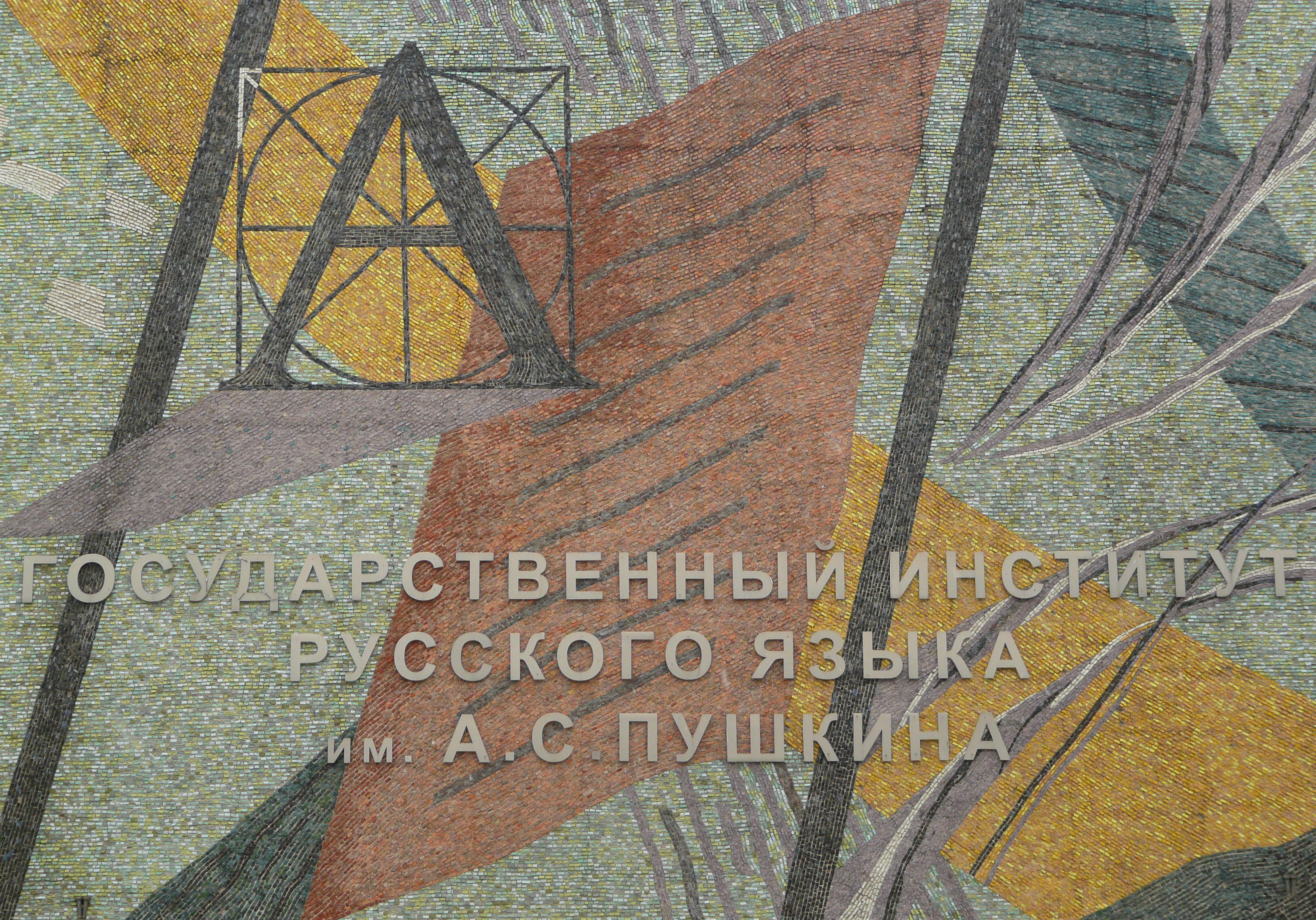 State institute of russian language named by A. S. Pushkin.